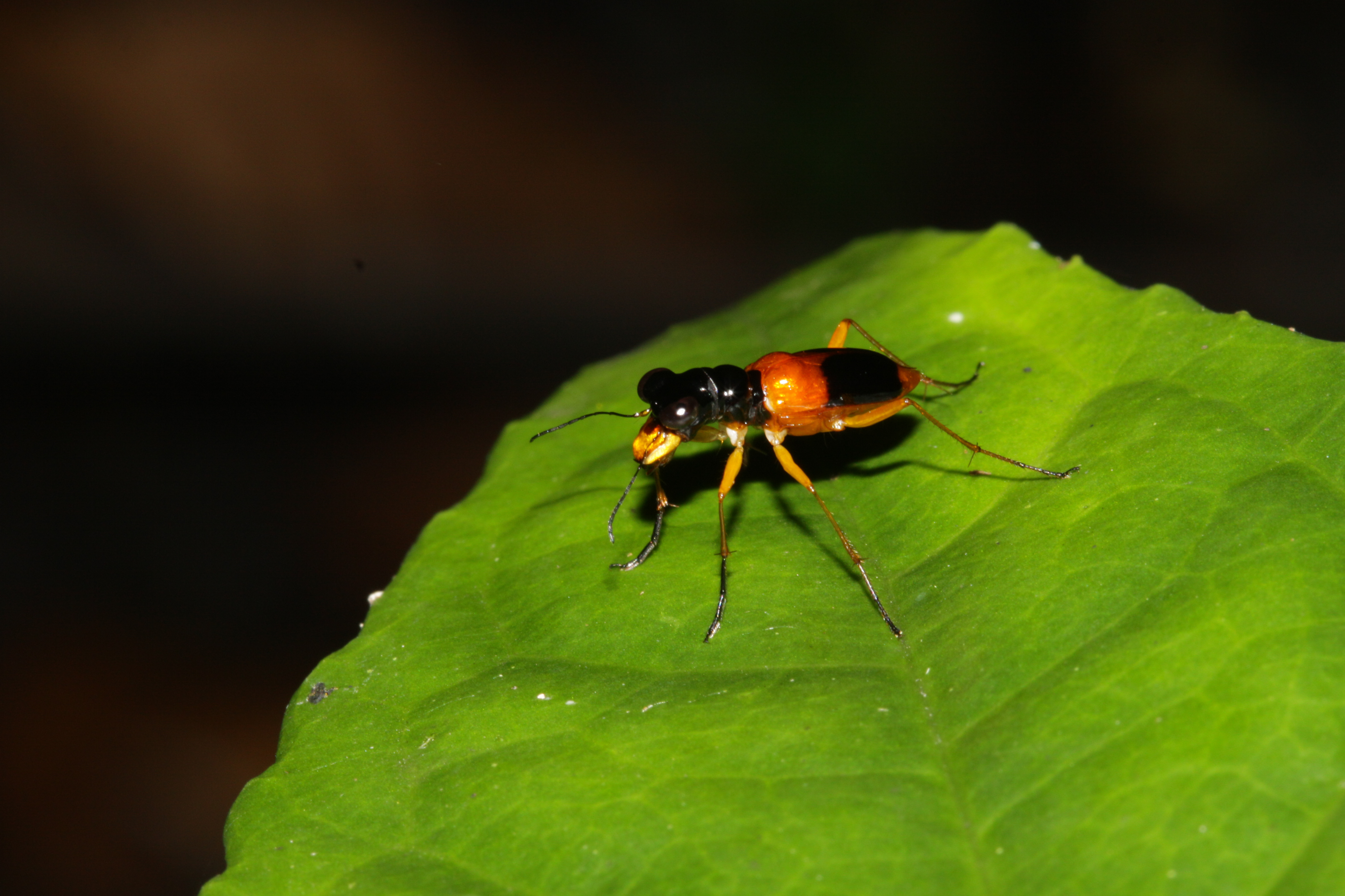 Therates latreillei latreillei THOMSON, 1860 [det. J. Wiesner, 2010, based on photos] Family: Cicindelidae (Tiger beetles, Sandlaufkäfer) Suborder: Adephaga Order: Coleoptera (beetles, Käfer) Indonesia, Sulawesi Tengah, 12.5km W Tentena: vic. Saluopa waterfall, 550m asl., 14.05.2010 (IMG_0041)